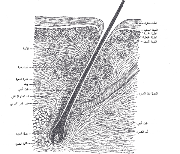 Section of skin, showing the epidermis and dermis; a hair in its follicle; the Arrector pili muscle; sebaceous glands.